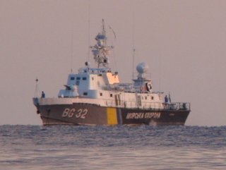 Stenka class patrol boat BG32 "Donbas" near Foros, Black Sea